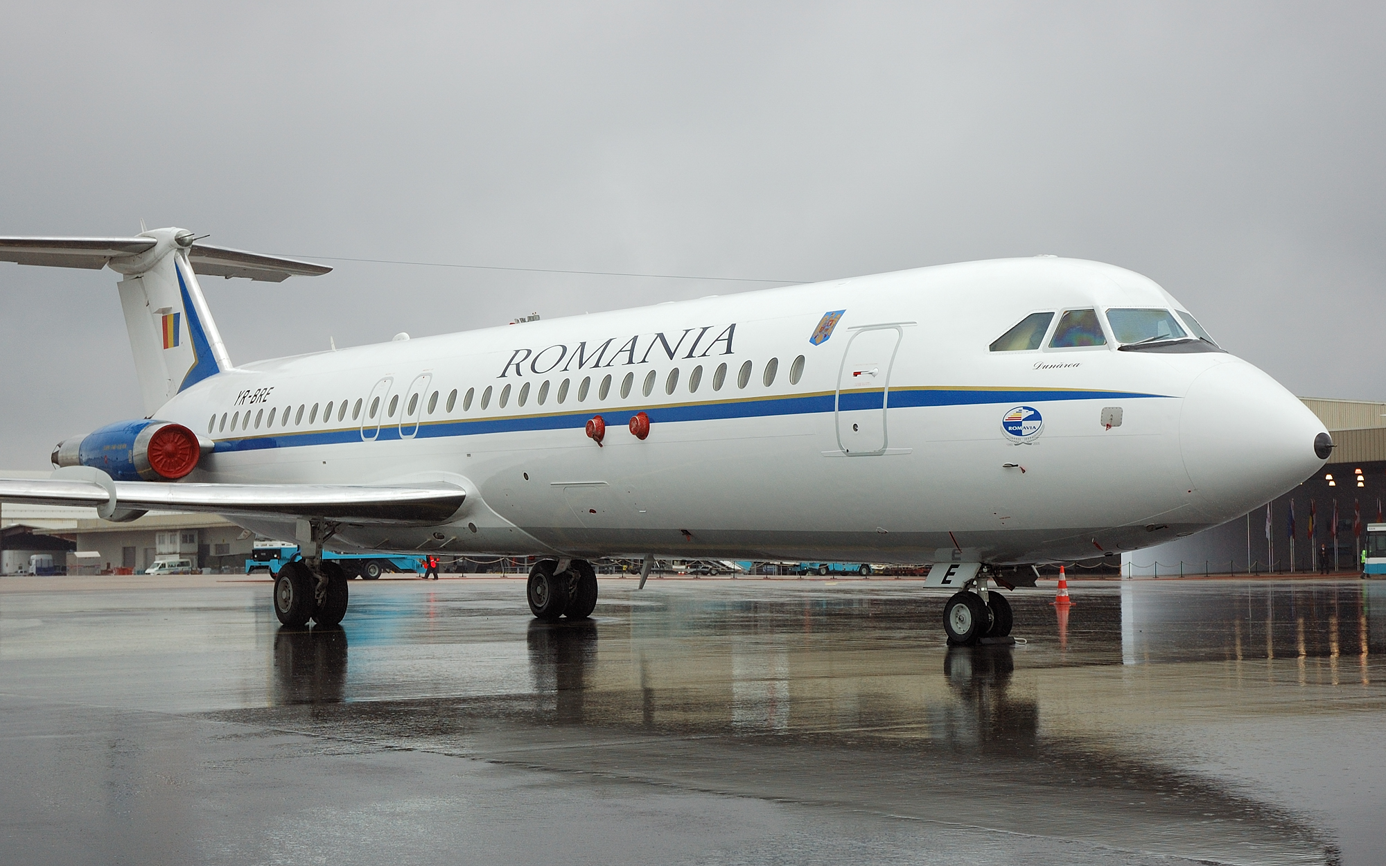 The ROMBAC 1-11 YR-BRE plane at Luxembourg airport on 2005-04-25.